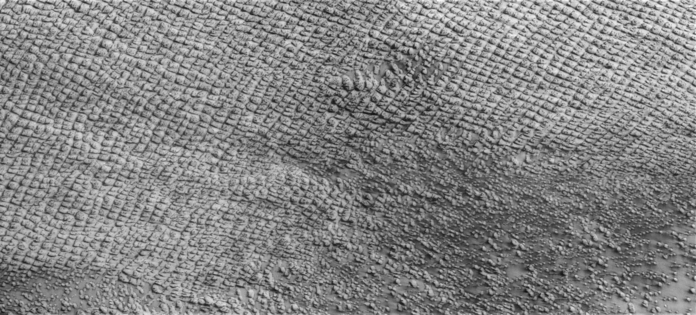 Hyperboreae_Undae Today's VIS image shows part of Hyperboreae Undae, a dune field located between the north polar cap and Escorial Crater. This image was taken during northern spring and the dunes still have significant surface frost. The dunes "darken" with time as the frost sublimates from solar heating and the dark sands are revealed.